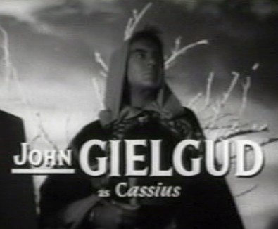 Cropped screenshot of John Gielgud from the trailer for the film Julius Caesar